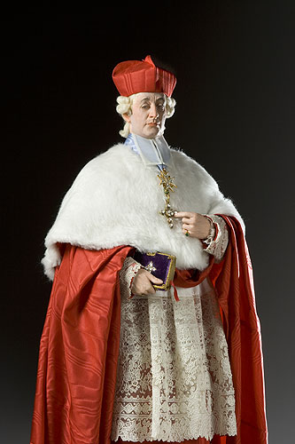 Historical Mixed Media Figure of French Cardinal Rohan produced by artist/historian George S. Stuart and photographed by Peter d'Aprix. This image, from the George S. Stuart Gallery of Historical Figures® archive ( is provided for all uses with appropriate attribution. Any derivatives must be shared in the same manner. Contributor mharrsch is webmaster for the gallery site.